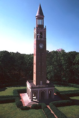 The Morehead-Patterson Bell Tower at the University of North Carolina at Chapel Hill.